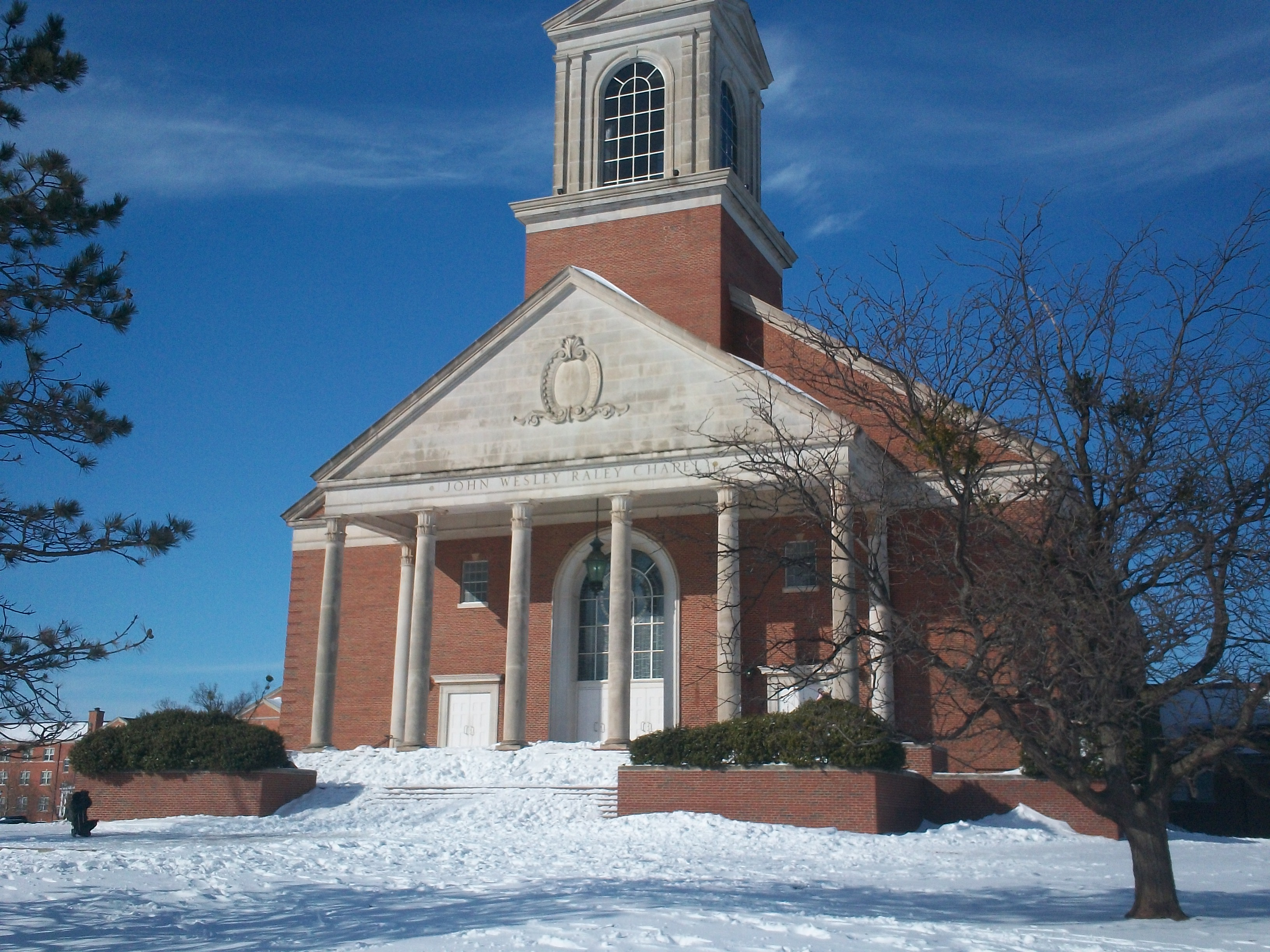 Raley Chapel after a winter snowstorm.